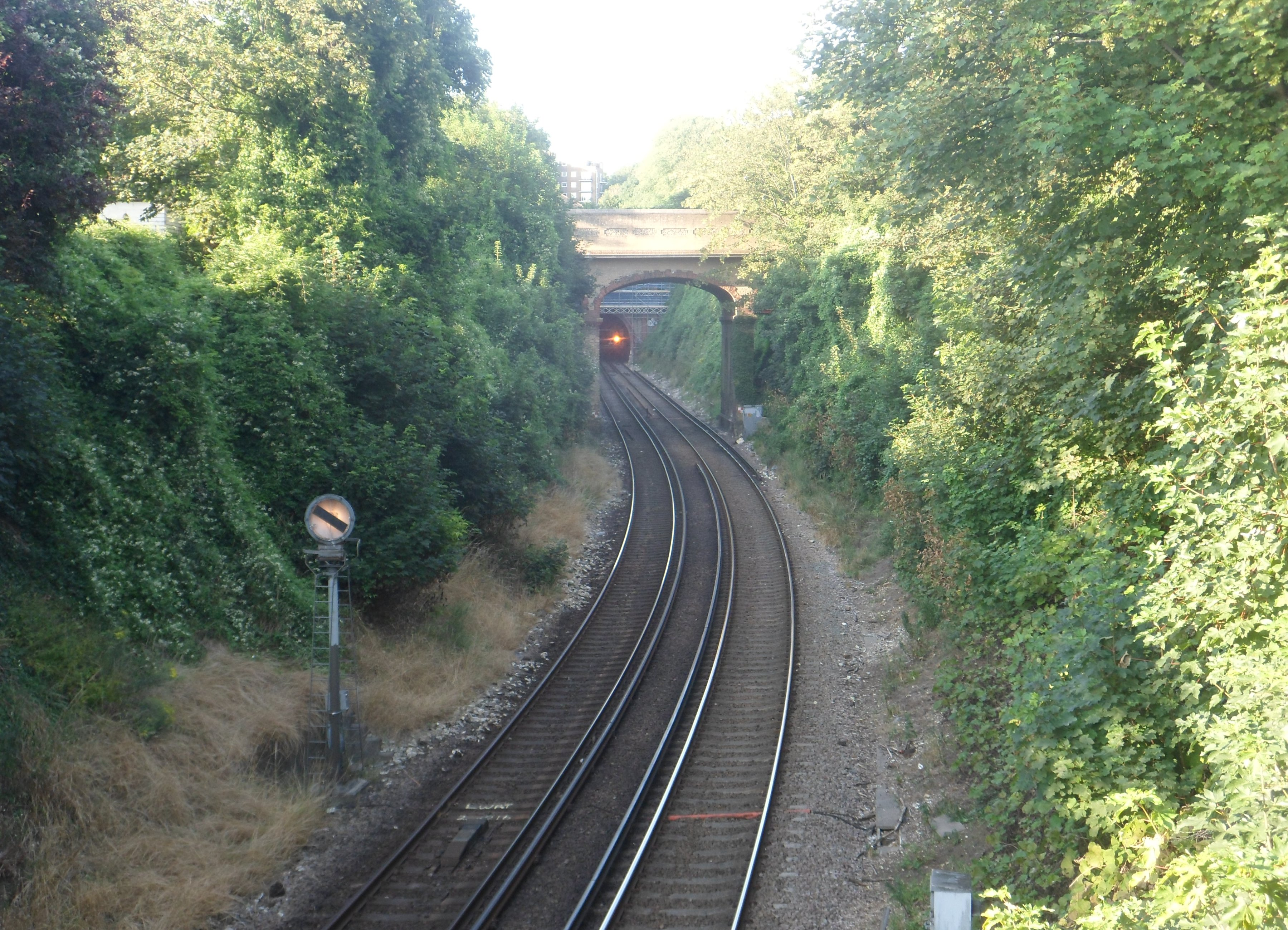 The Cliftonville Curve is a railway line between Preston Park and Hove in East Sussex, England. It allows trains to travel between the Brighton Main Line and the West Coastway Line without having to reverse at Brighton. This view looks eastwards (towards Preston Park) from the Burton Walk footbridge, near the Hove end of the curve.